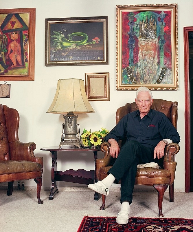 Art of Israel